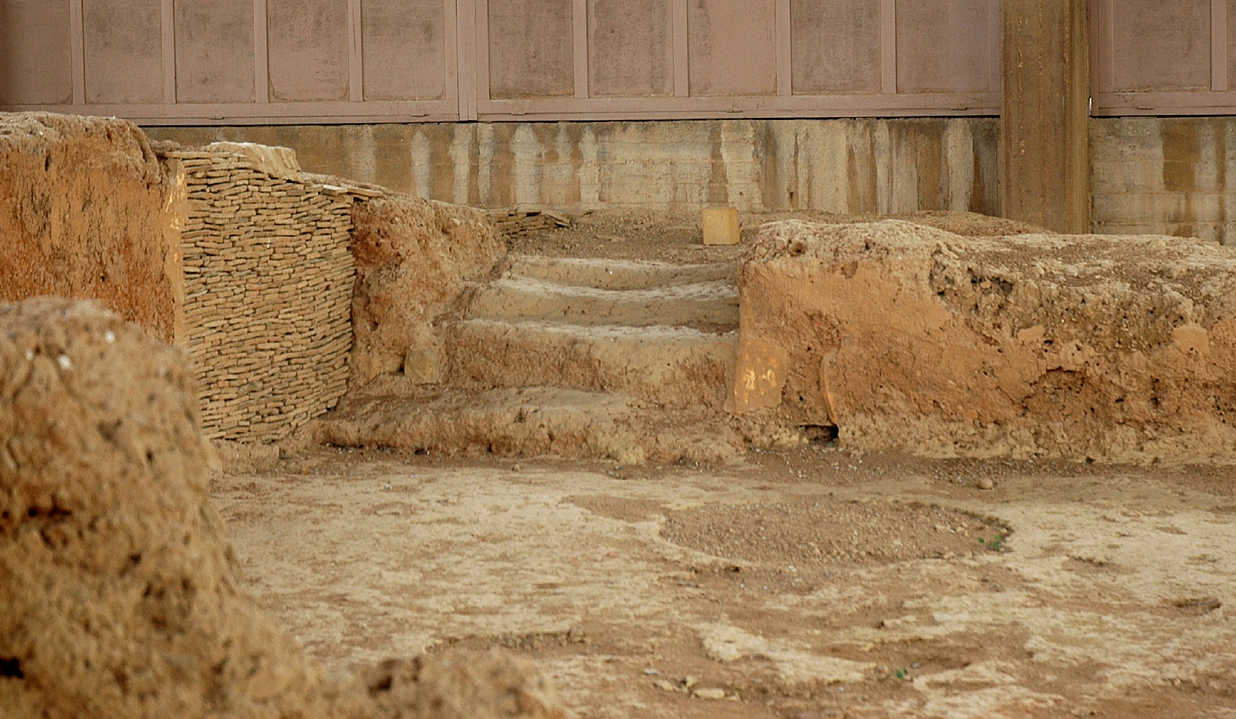 Stairway to the second story in the House of the Tiles, an Early Helladic II palace in Lerna, Greece.